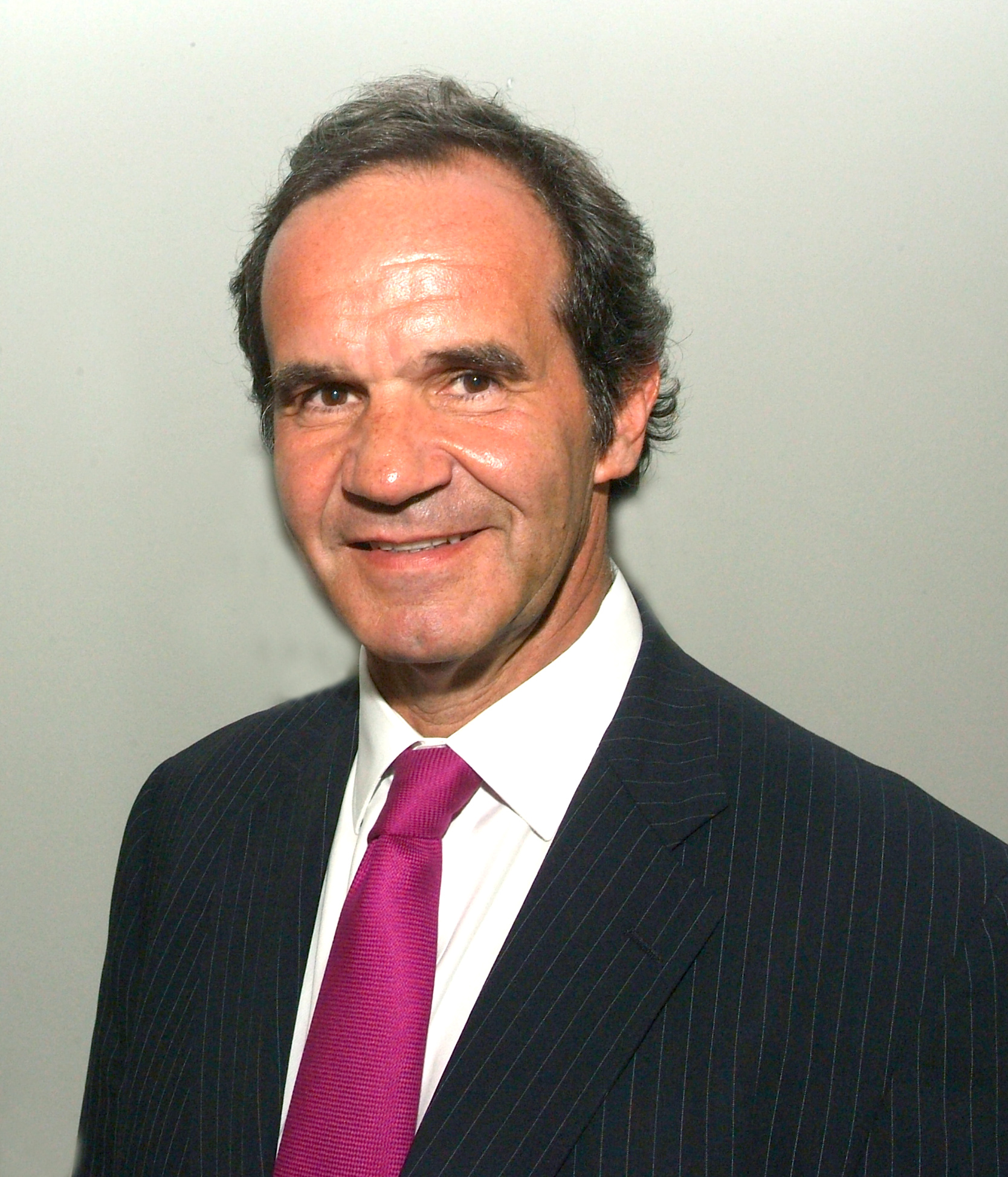 Andrés Allamand, minister of Defense of Chile (2011)